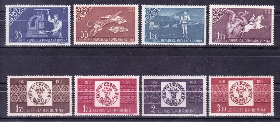 Stamps commemorating the centenary of Romanian postage stamps.